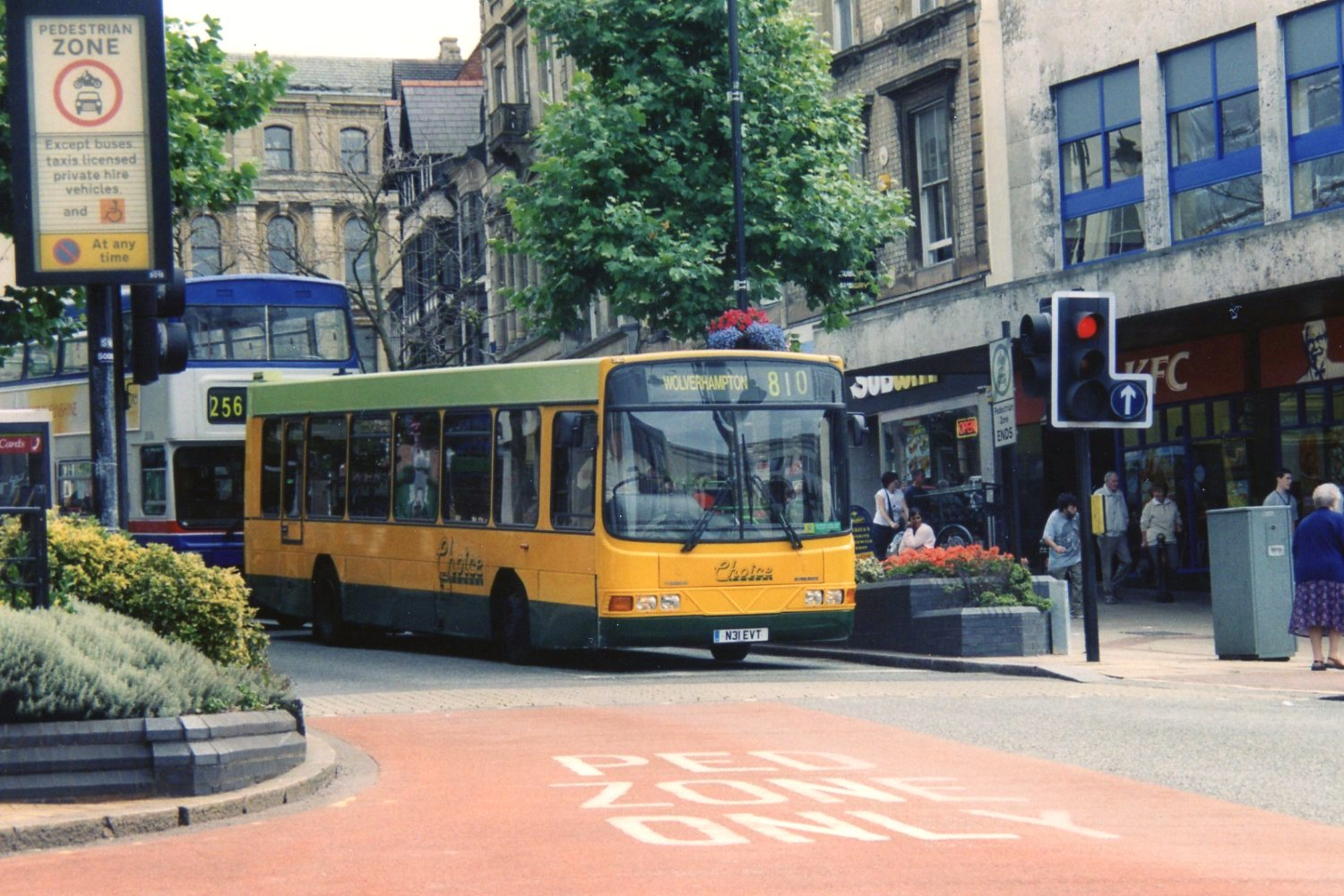 Choice Travel 31 (N31EVT), a rare Mercedes-Benz OH1416 single-decker with Wright Urbanranger bodywork, at Wolverhampton in August 2003, shortly before being withdrawn and sold.